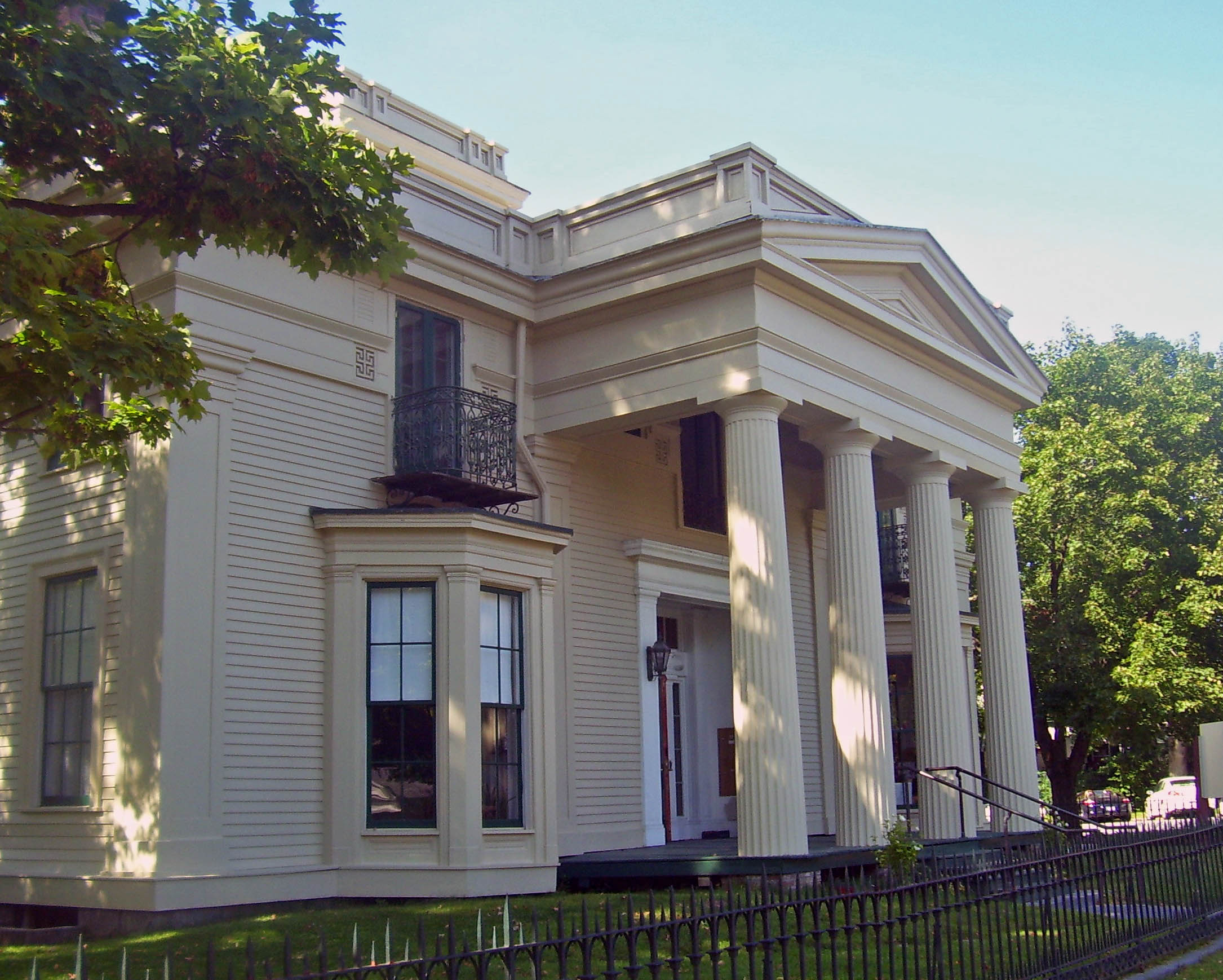 Hiram Charles Todd House, Saratoga Springs, NY, USA